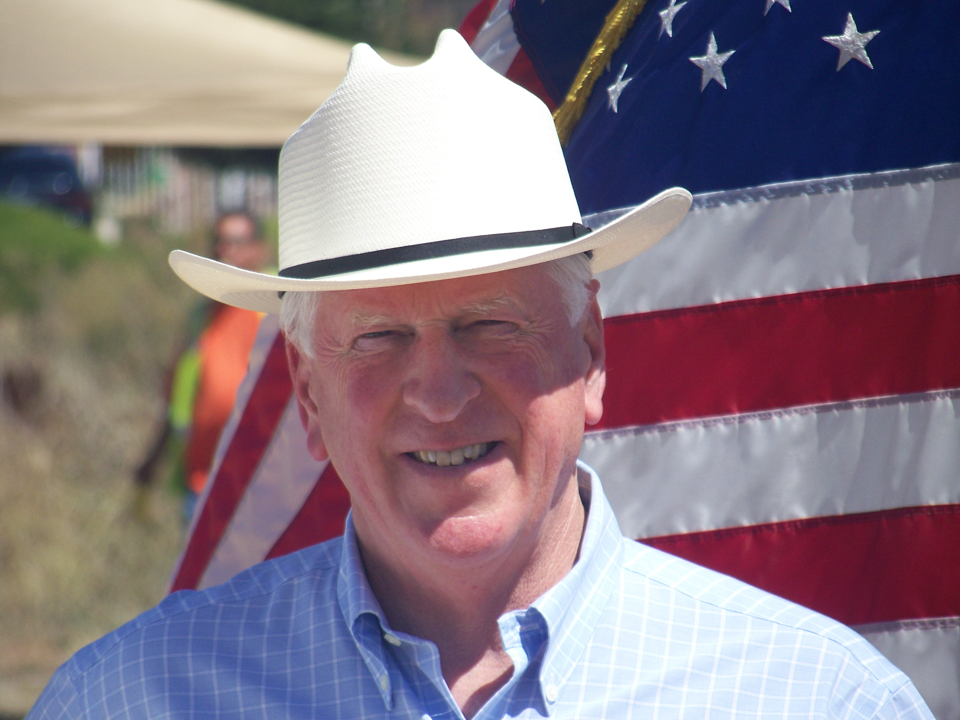 Congressman Mike Thompson in American Canyon, California at the dedication of a hiking trail name din his honor.